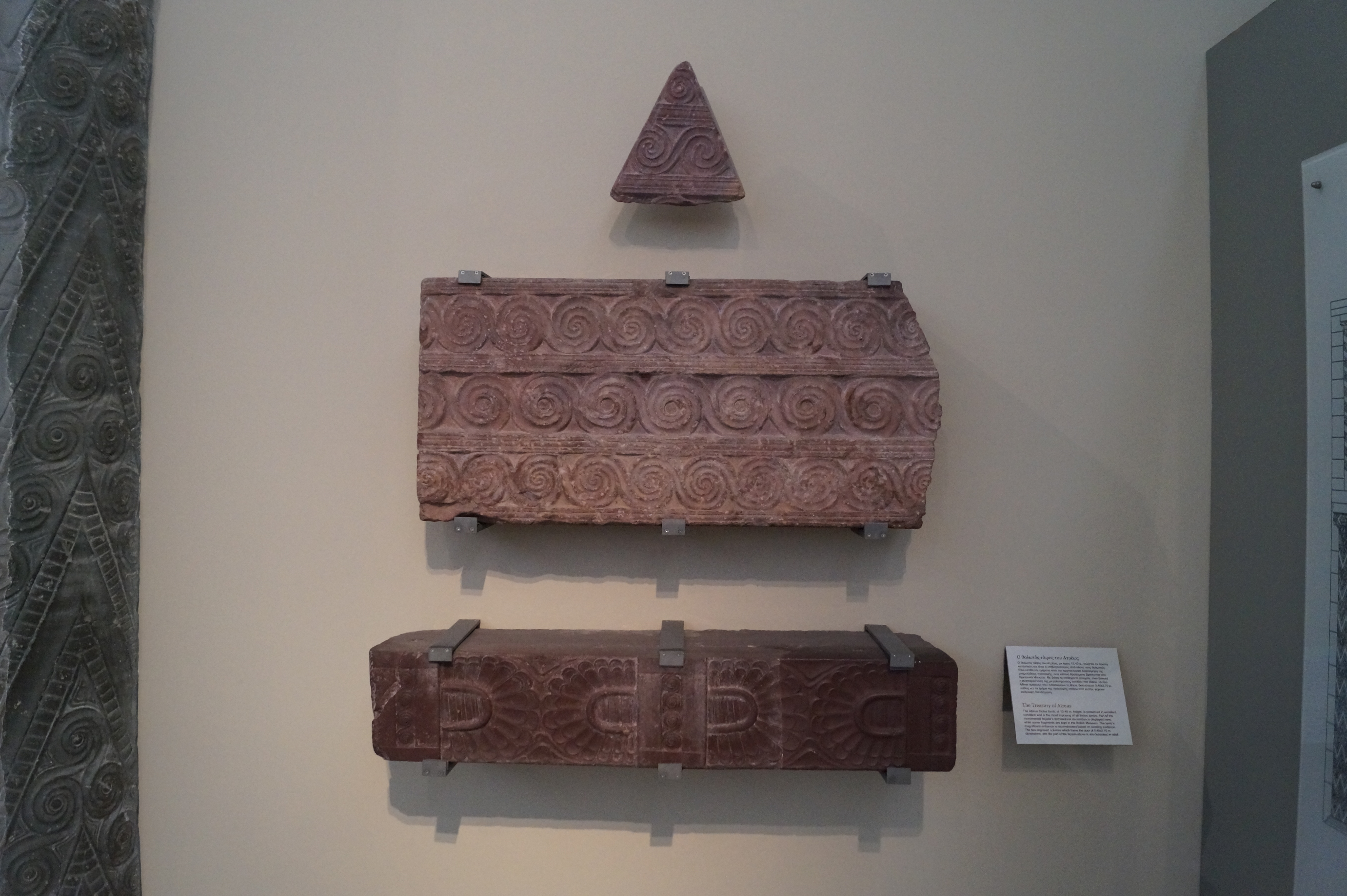 National Archaeological Museum of Athens: Stone pieces of the Facade and the right column of the treasury of Atreus.